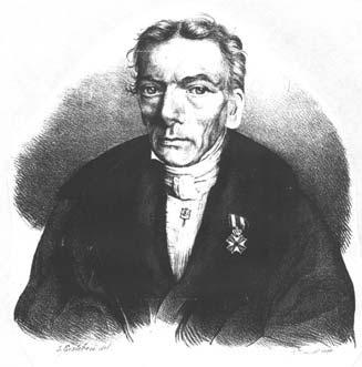 Portrait of Botanist Caspar Georg Carl Reinwardt from a biography of Reinwardt written by Peter van Mensch, lecturer cultural heritage of the Reinwardt Academy in Amsterdam.